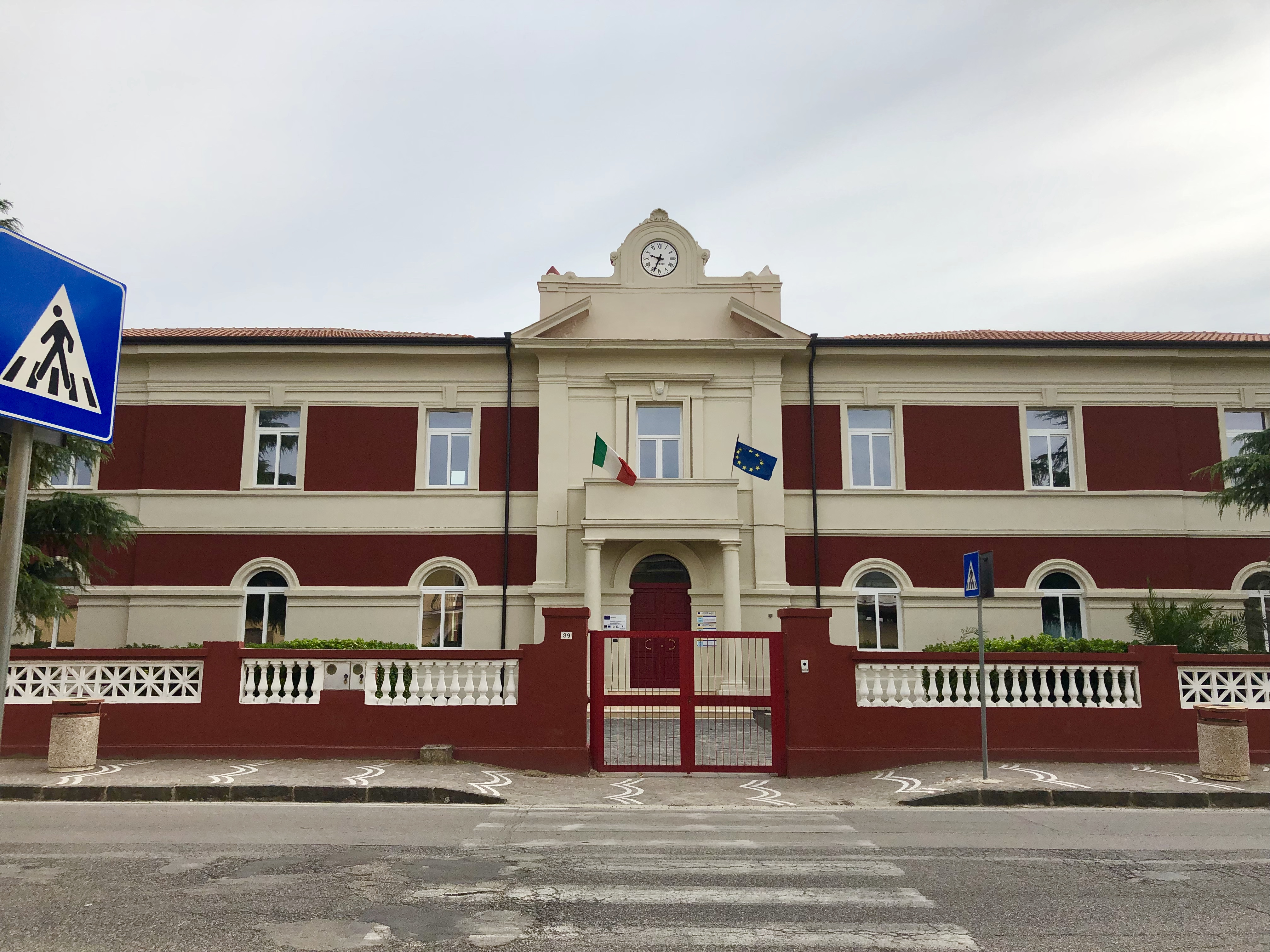 Scuola elementare G.Falcone